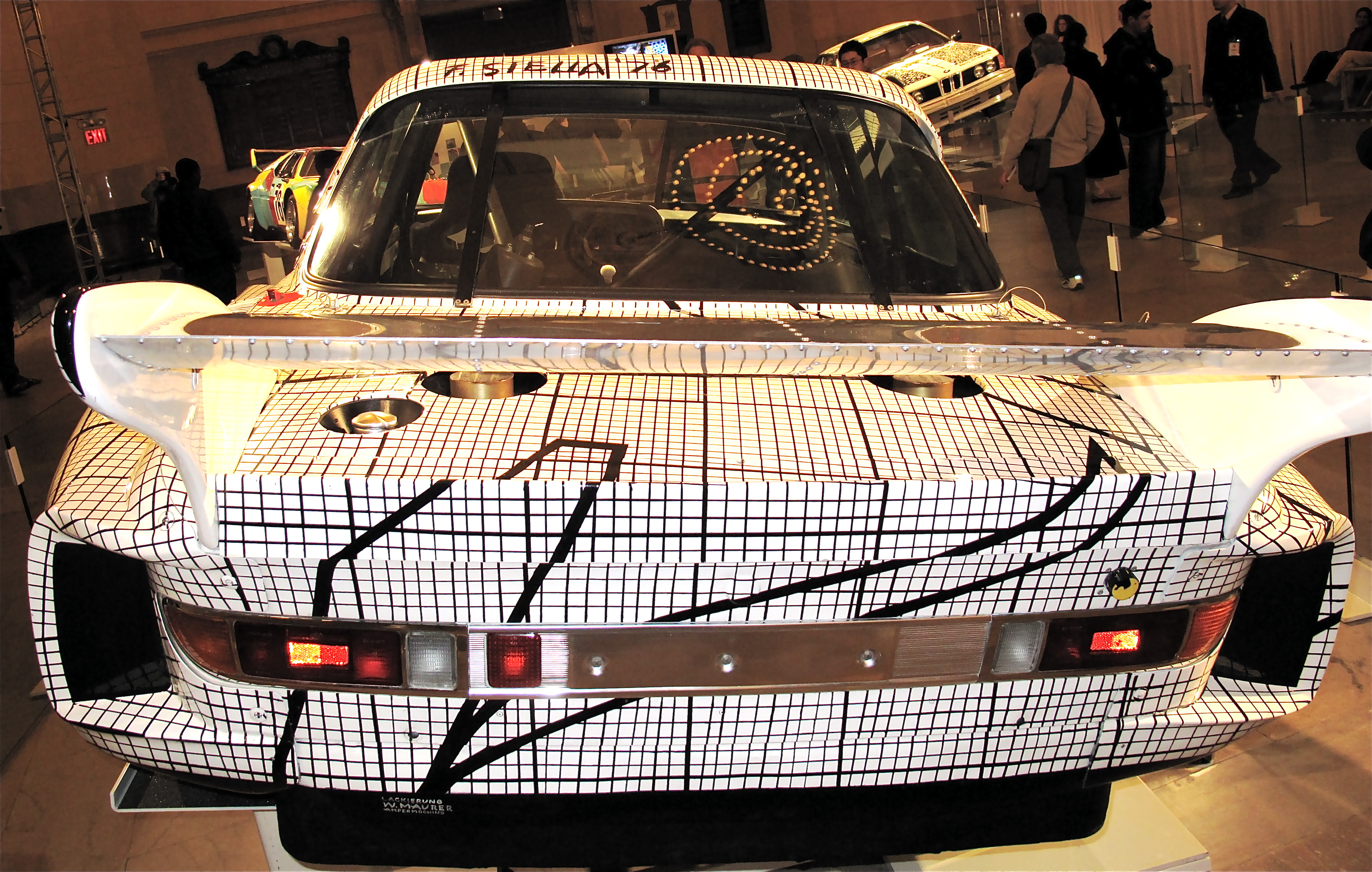 1976 BMW 3.0 CLS painted by Frank Stella